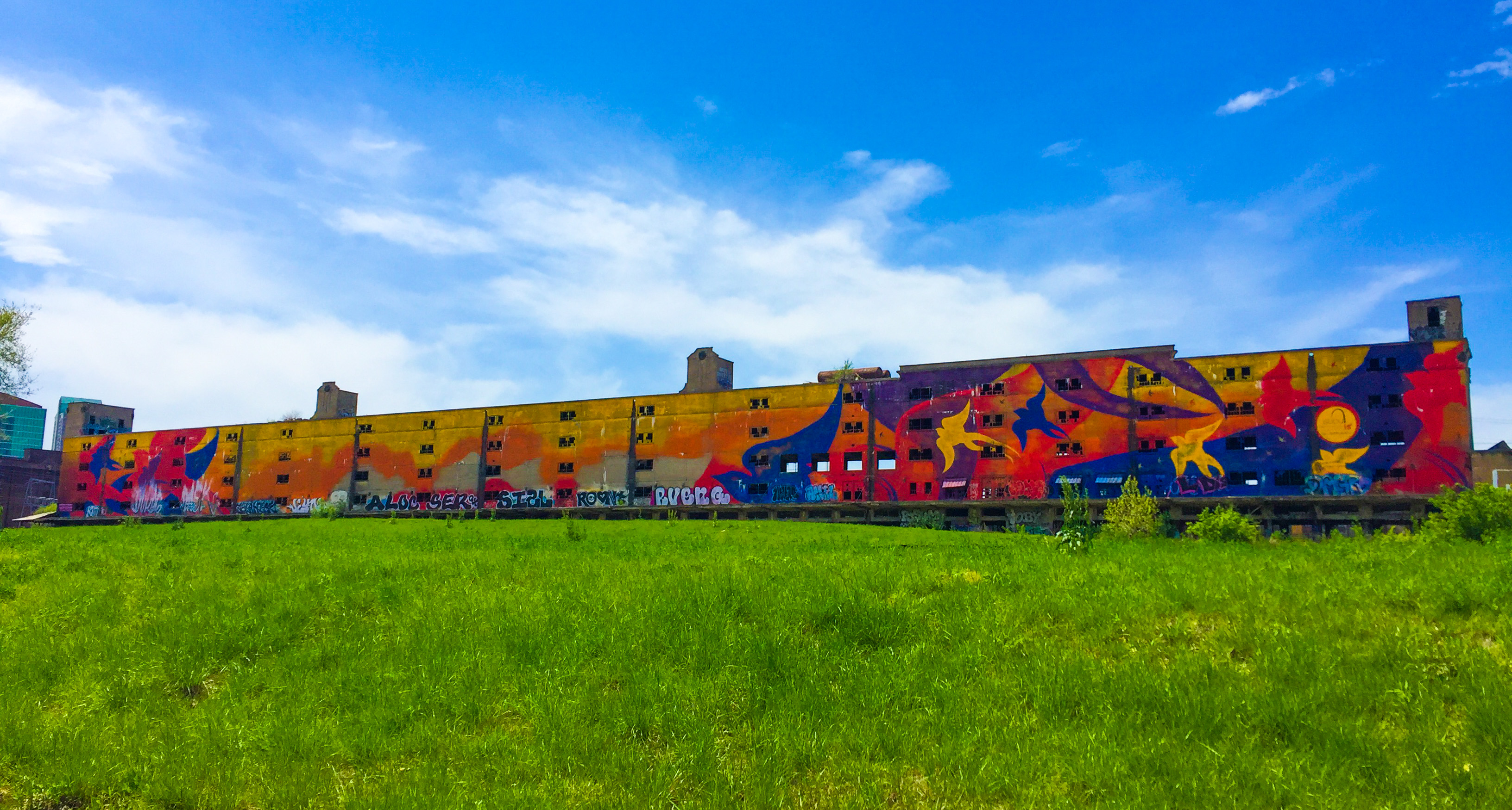 Cotton Belt Freight Depot as seen from the bike trail